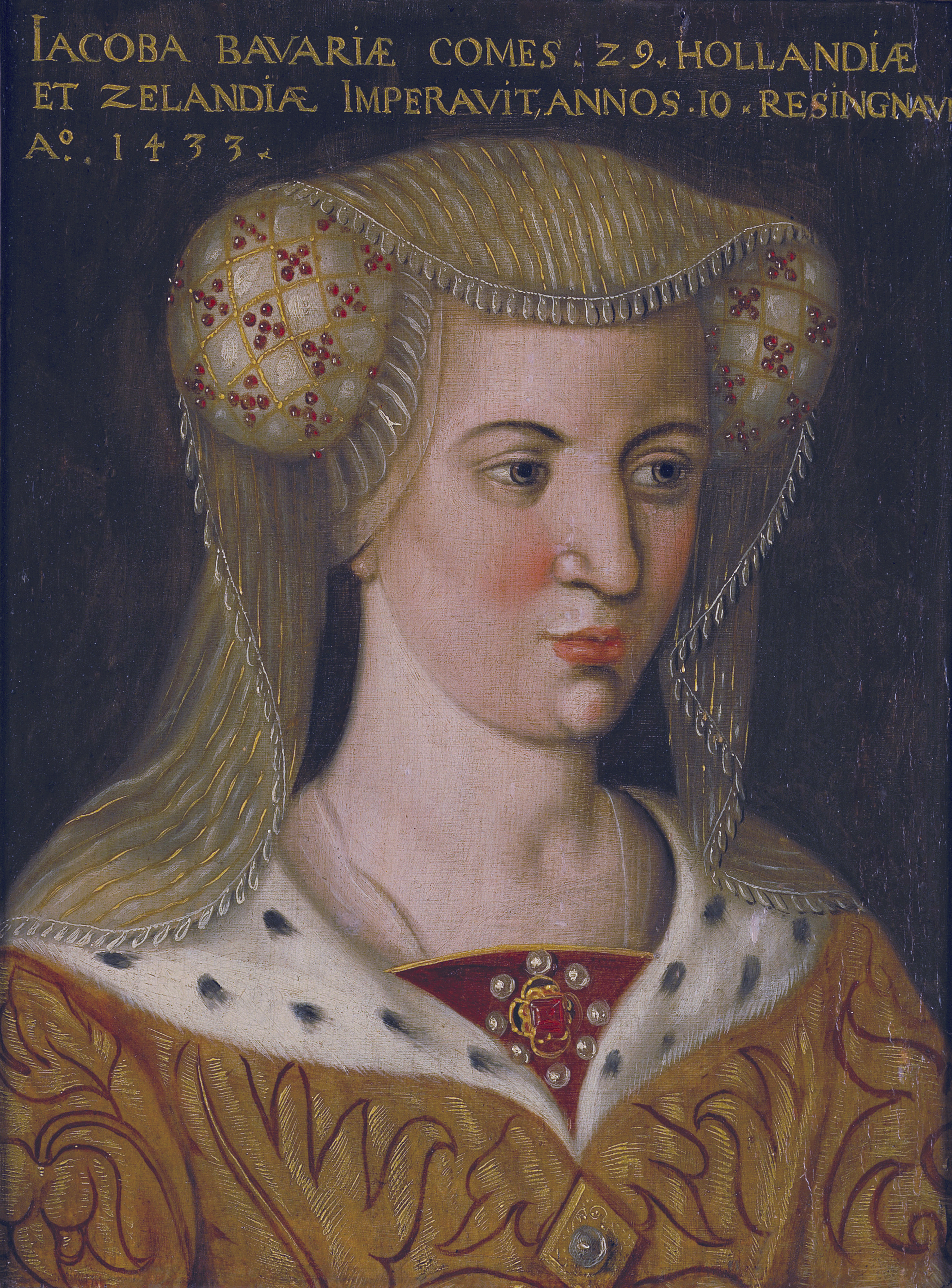 Portrait of Jacqueline of Hainault (1401-1436), who was Dauphine of France and Countess of Hainault. She was heiress to the counties of Holland, Zeeland and Hainaut. She did not lead an easy life; aged five, she was employed as a marriage candidate in the dynastic power game. It was not an arranged marriage. Her first husband died, the second marriage - her cousin - she declared invalid, a third failed. For her fourth and last marriage she had to relinquish her power, suggesting that in this case it was true love. Tragically Jaqcueline died two years after the marriage to the effects of tuberculosis.